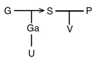 Toulminmodel